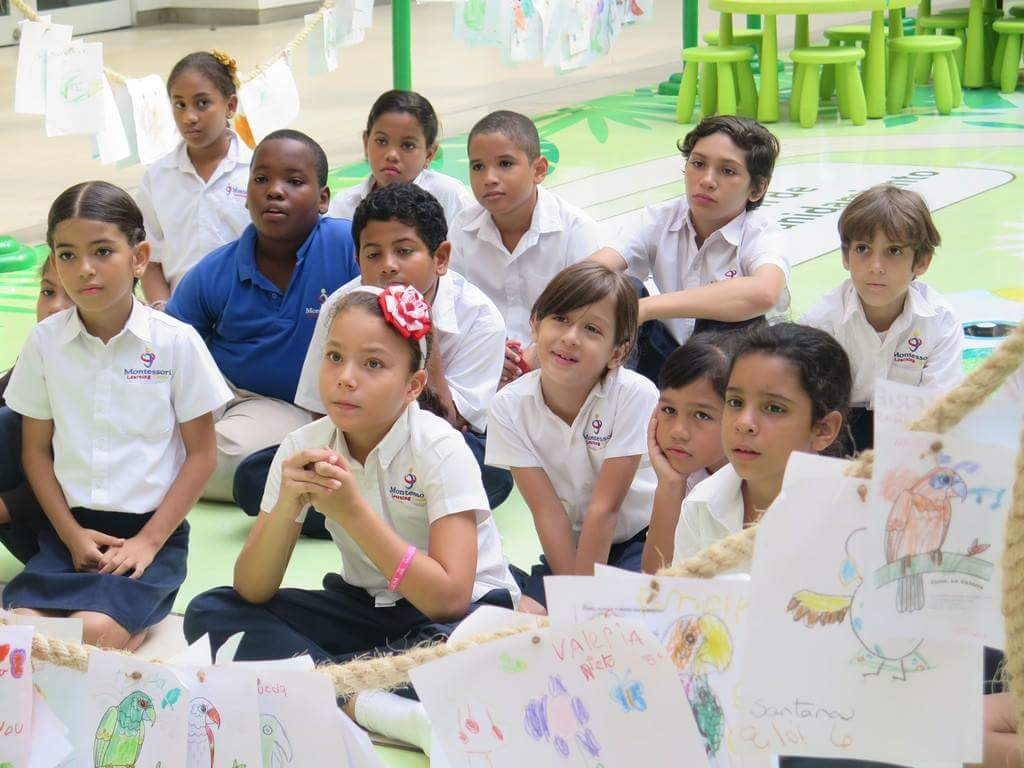 Kids taking classes